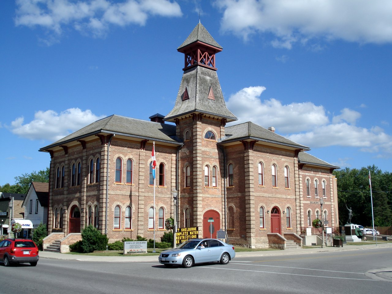 Shelburne City Hall